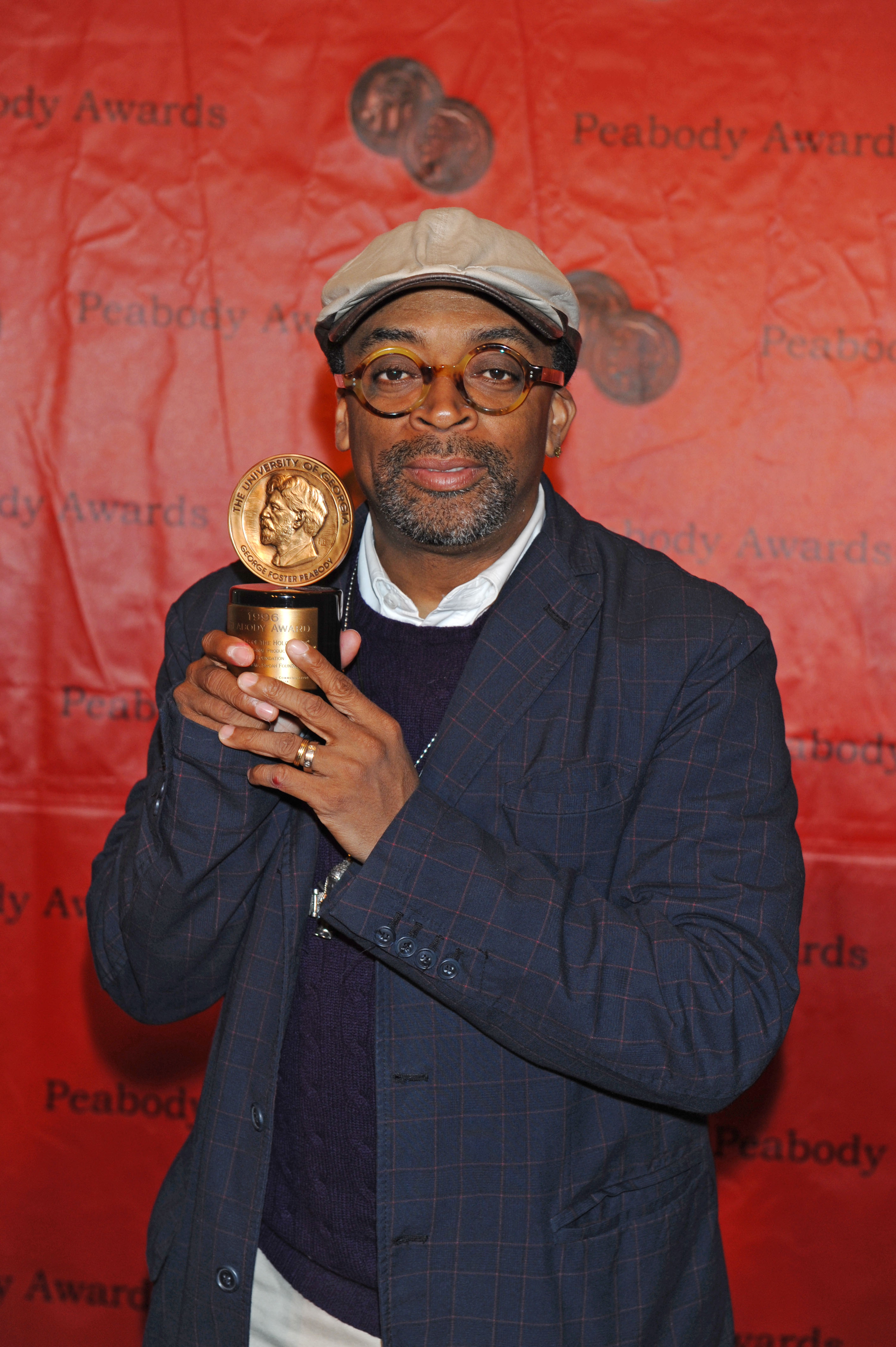 PHOTO CREDIT: ANDERS KRUSBERG / PEABODY AWARDS 70th Annual Peabody Awards Luncheon Waldorf=Astoria Hotel May 23, 2011